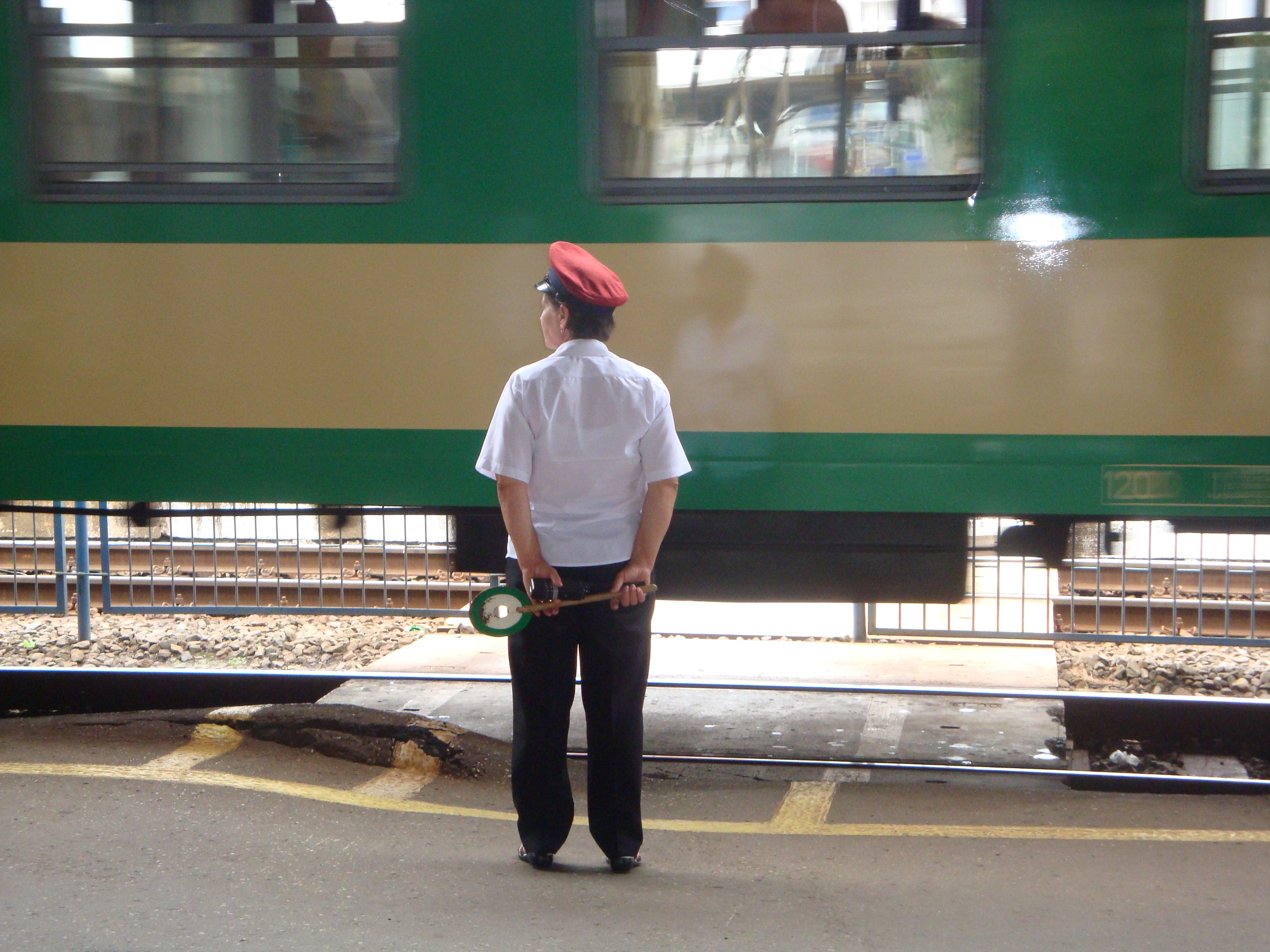 Dyżurny ruchu peronowy. This photo was taken during Railway Wikiexpedition 2013 set up by Wikimedia Polska Association. You can see all photographs in category Wikiekspedycja kolejowa 2013. English | Polski | +/−